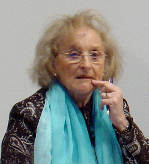 Baroness Sally Greengross